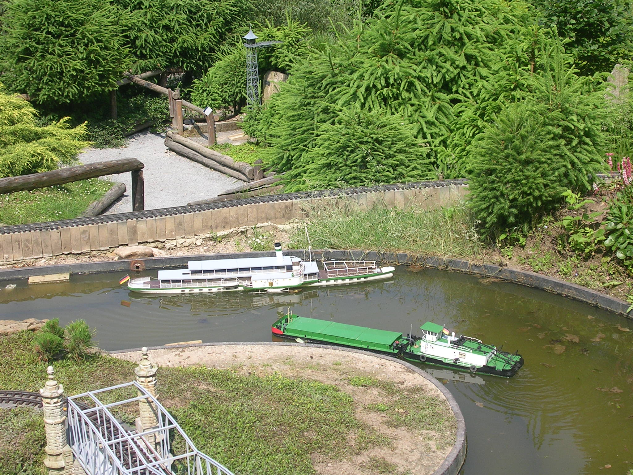 Little Saxon Switzerland is a park in Dorf Wehlen (Stadt Wehlen, Saxony, Germany) with models of buildings, nature und transport of Saxon Switzerland.